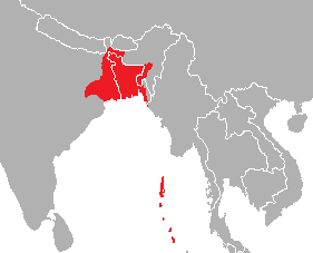 Bengali-speaking zone in South Asia